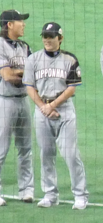 Hisashi Takeda, pitcher of the Hokkaido Nippon-Ham Fighters, at Tokyo Dome.